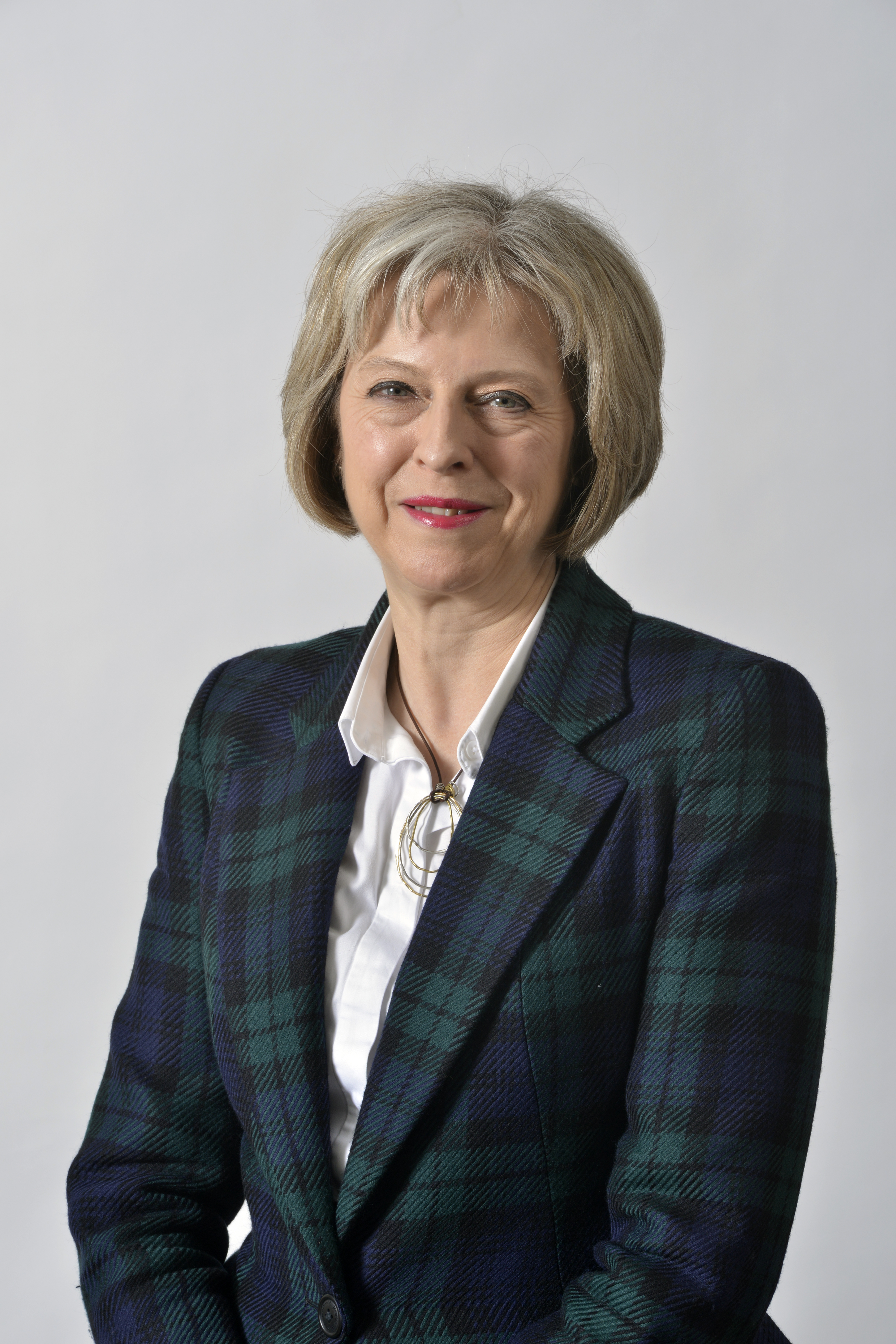 Theresa May MP, Secretary of State for the Home Department Do not crop: This image is used on one or more sister projects (where its entire contents are wanted), or has archival significance. If you crop it, please save the new image separately, and do not overwrite this